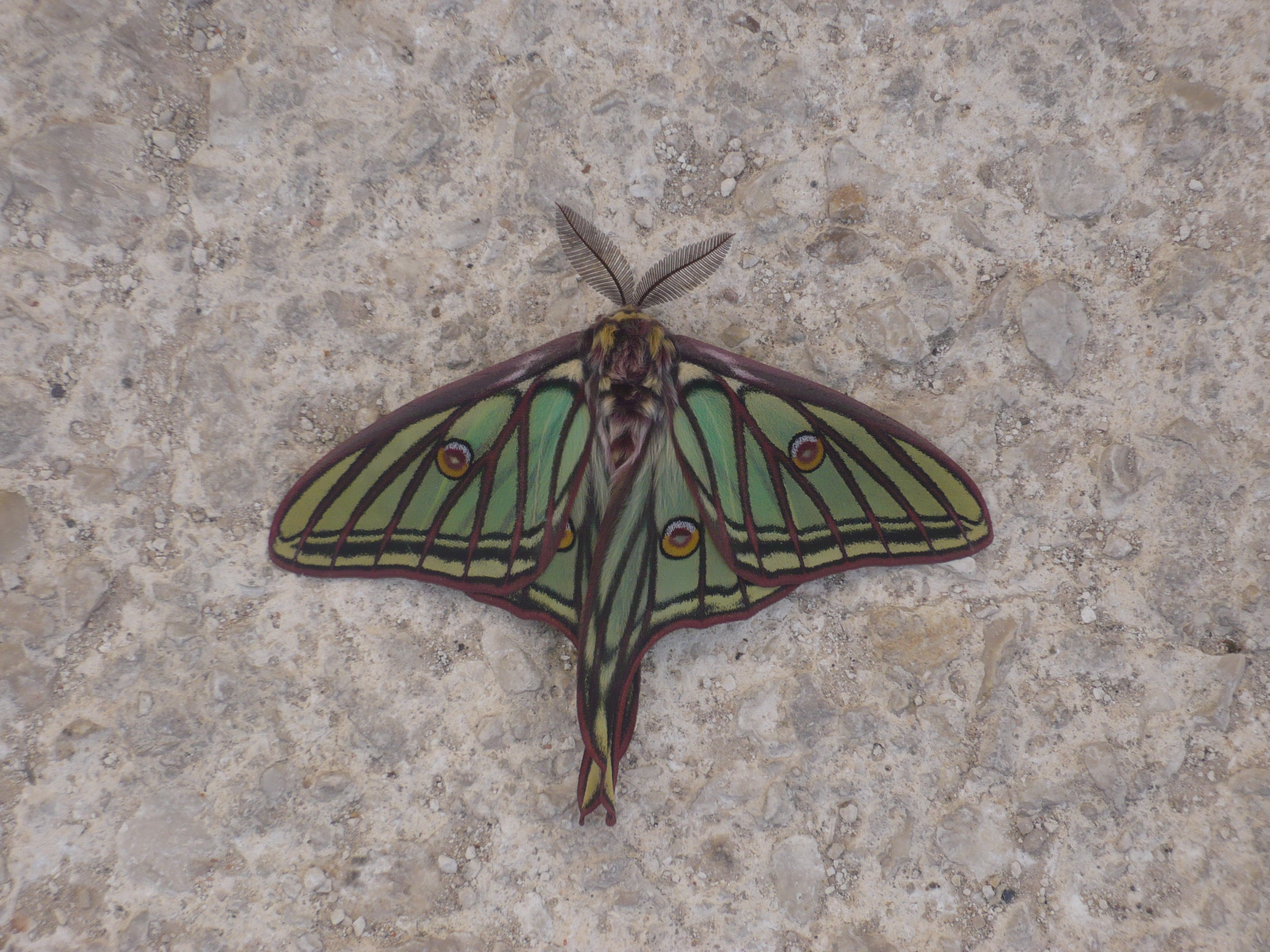 Graellsia isabellae at Calar de la Santa, Murcia.